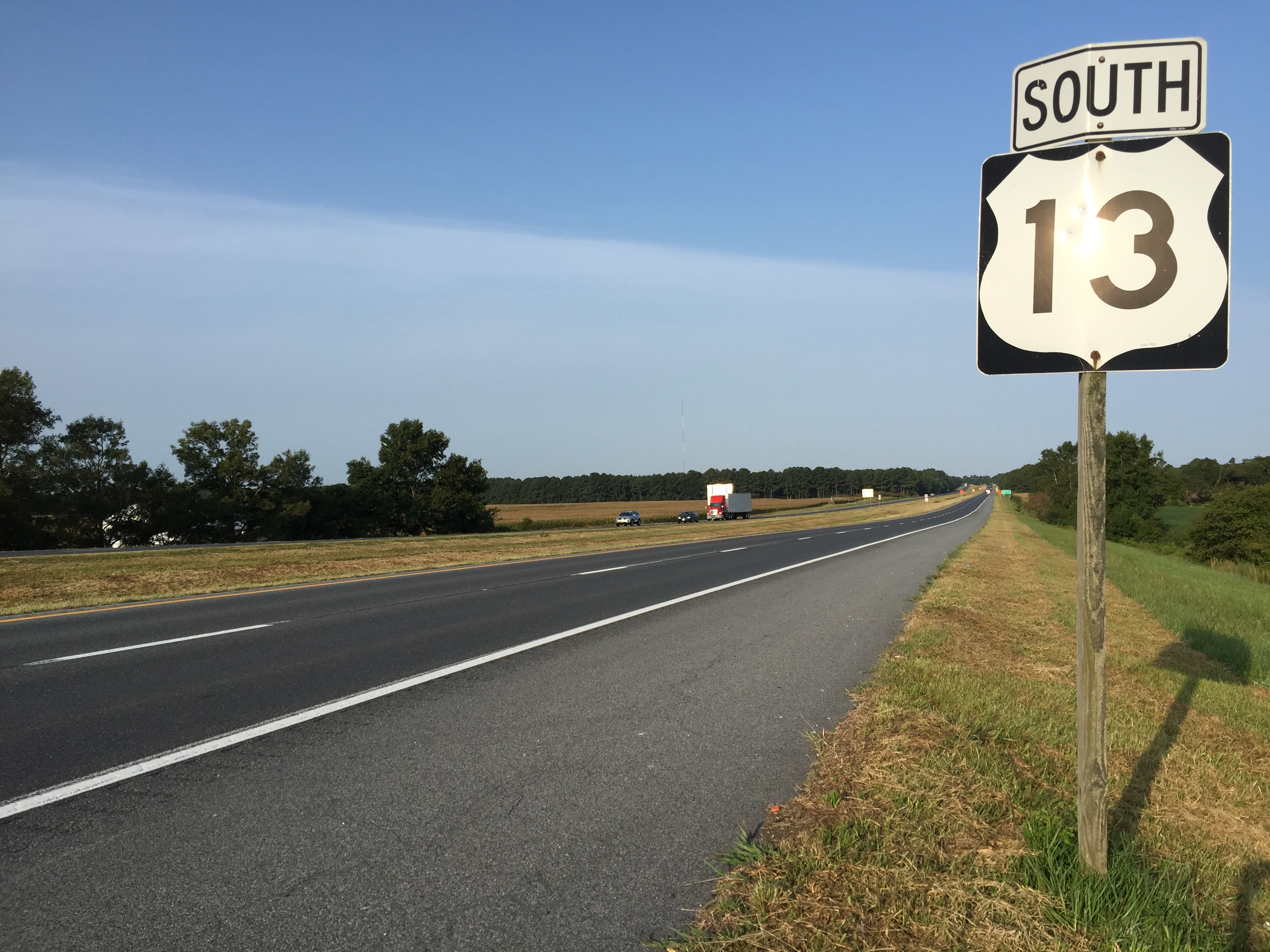 View south along U.S. Route 13 (Salisbury Bypass) just south of Maryland State Route 513 (Cedar Lane) in Wicomico County, Maryland